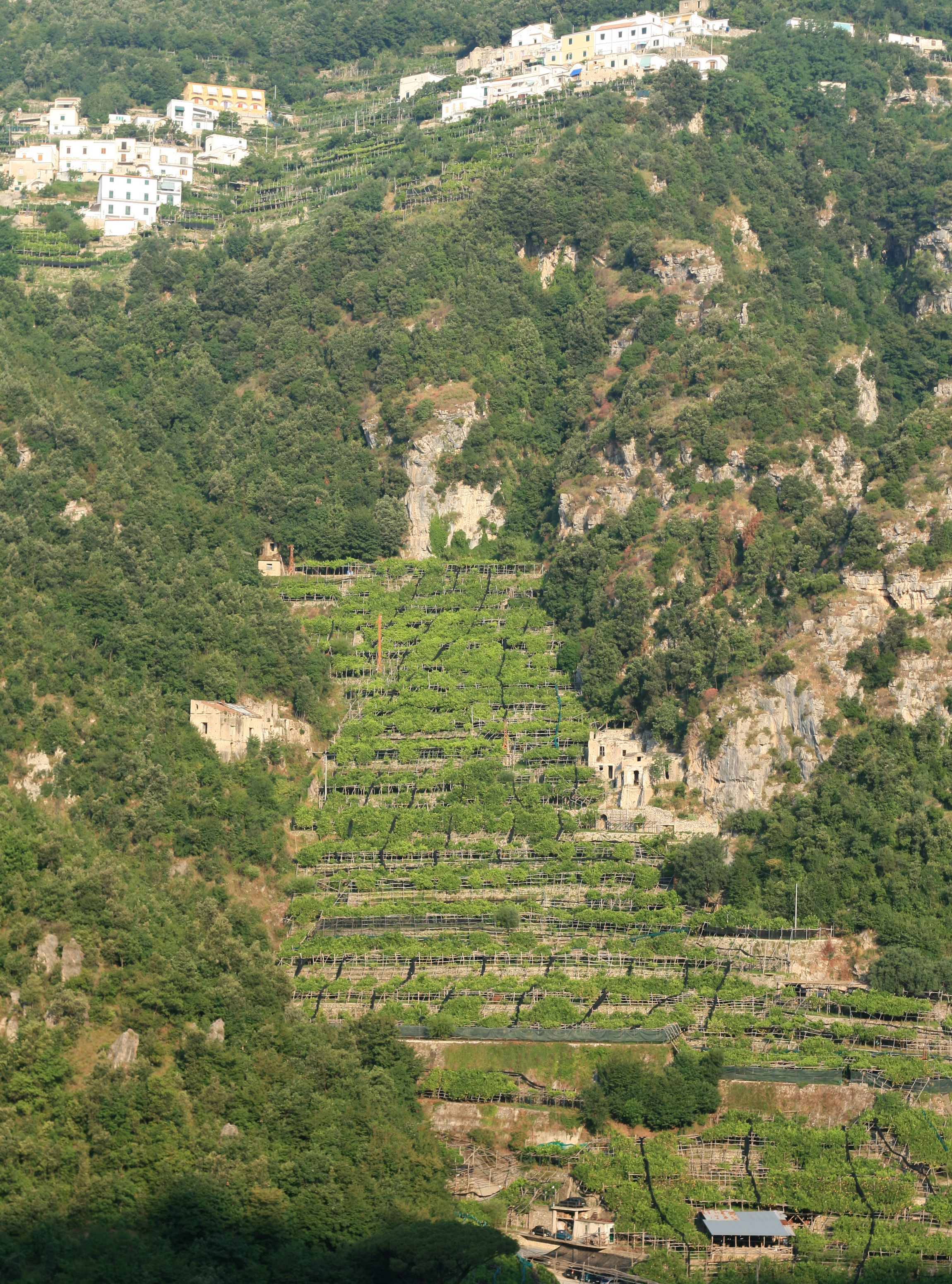 Terraced lemon orchard in steep hillside, Amalfi, Italy.